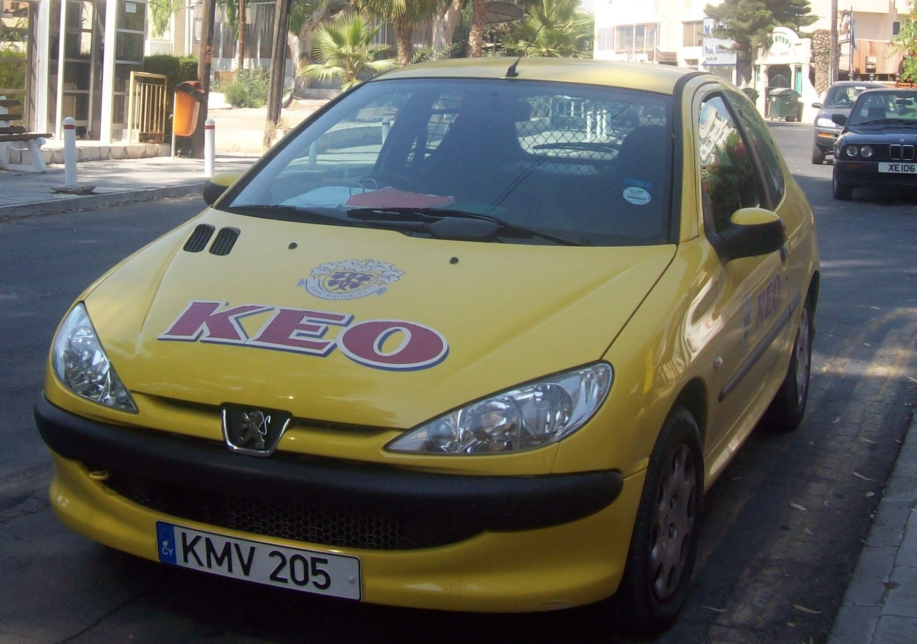 Peugeot 206 Keo delivery car at Amerikanas Street, Limassol, Cyprus.